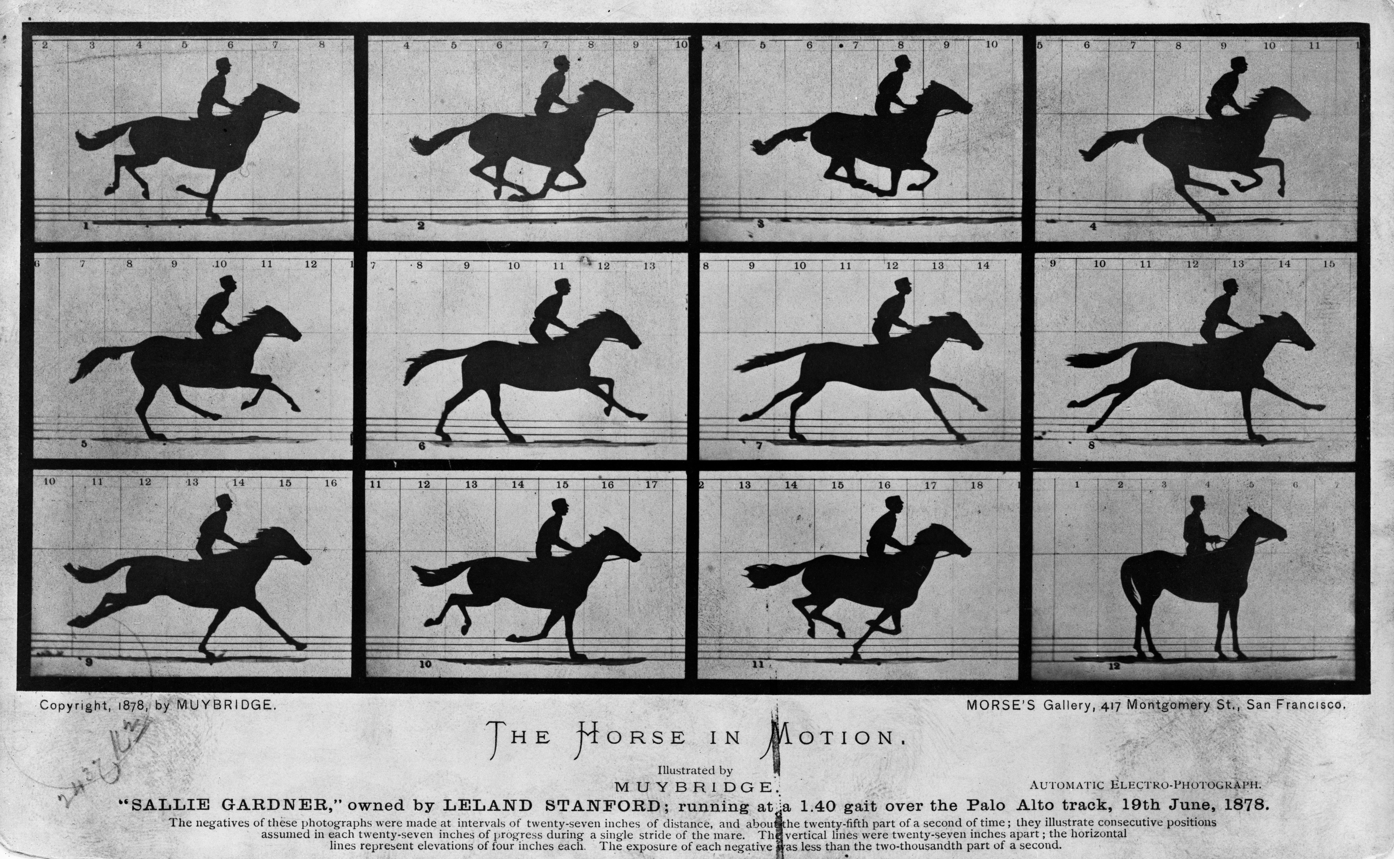 The Horse in Motion by Eadweard Muybridge. Noted photographer, Eadweard Muybridge was hired, in 1872, by Leland Stanford a railroad baron and future university founder, to find out if there was moment mid-stride where horses had all hooves off the ground. It took several years but Muybridge delivered having captured a horse, named "Sallie Gardner," owned by Stanford; running at a 1:40 gait over the Palo Alto track, on 19th June 1878. Muybridge used a dozen cameras all triggered one after another with a set of strings.